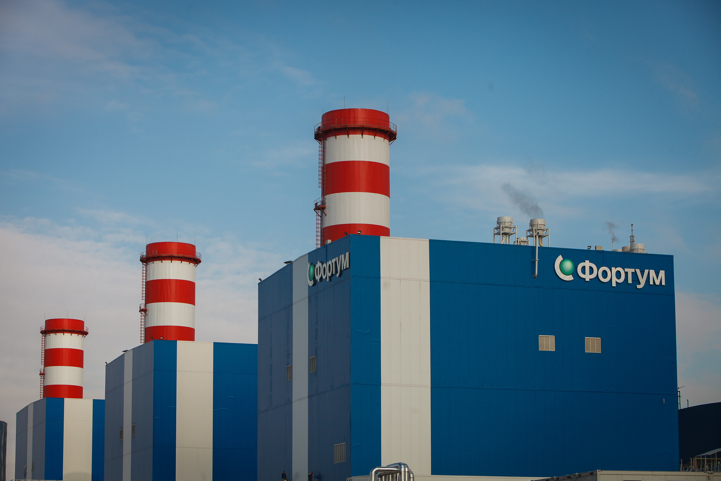 Nyagan Power Plant